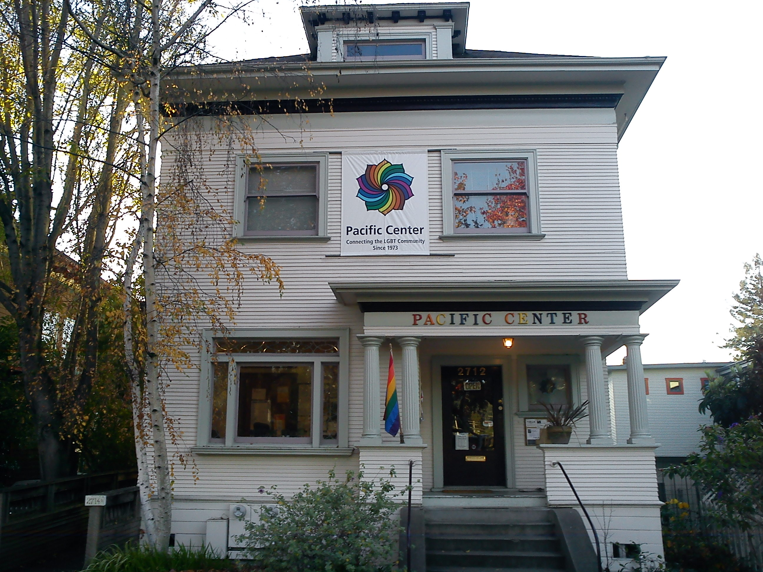 Front of Pacific Center for Human Growth